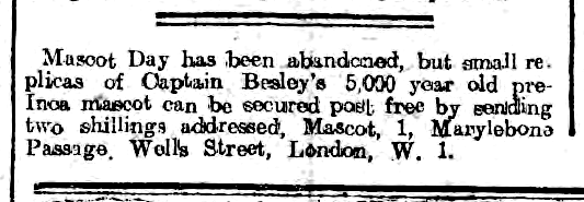 Article explaining how to order the Besley Pre-Inca Good Luck Mascot printed in the North Wales Chronicle and Advertiser for the Principality newspaper